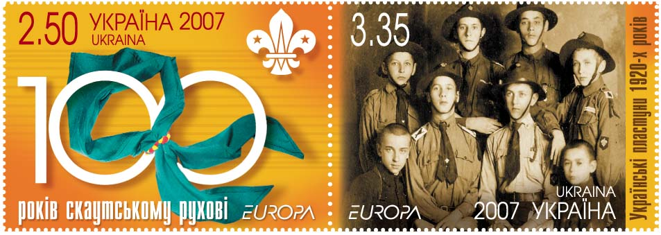 Postage stamps of Ukraine. Europa-CEPT. 100th anniversary of Scouting movement